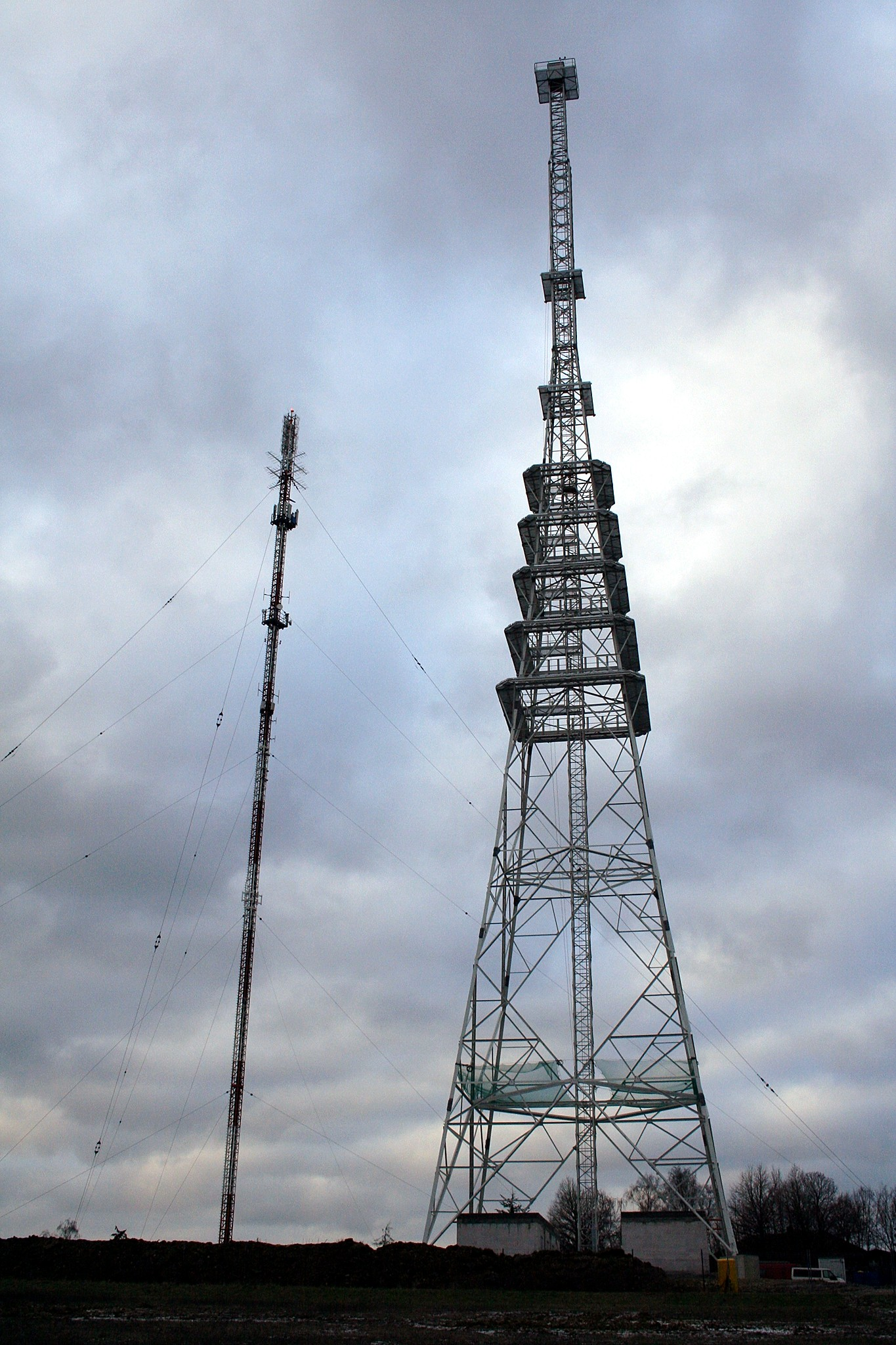 Old (left) and new transmission tower (under construction) on top of the "Frankenwarte", near Würzburg.